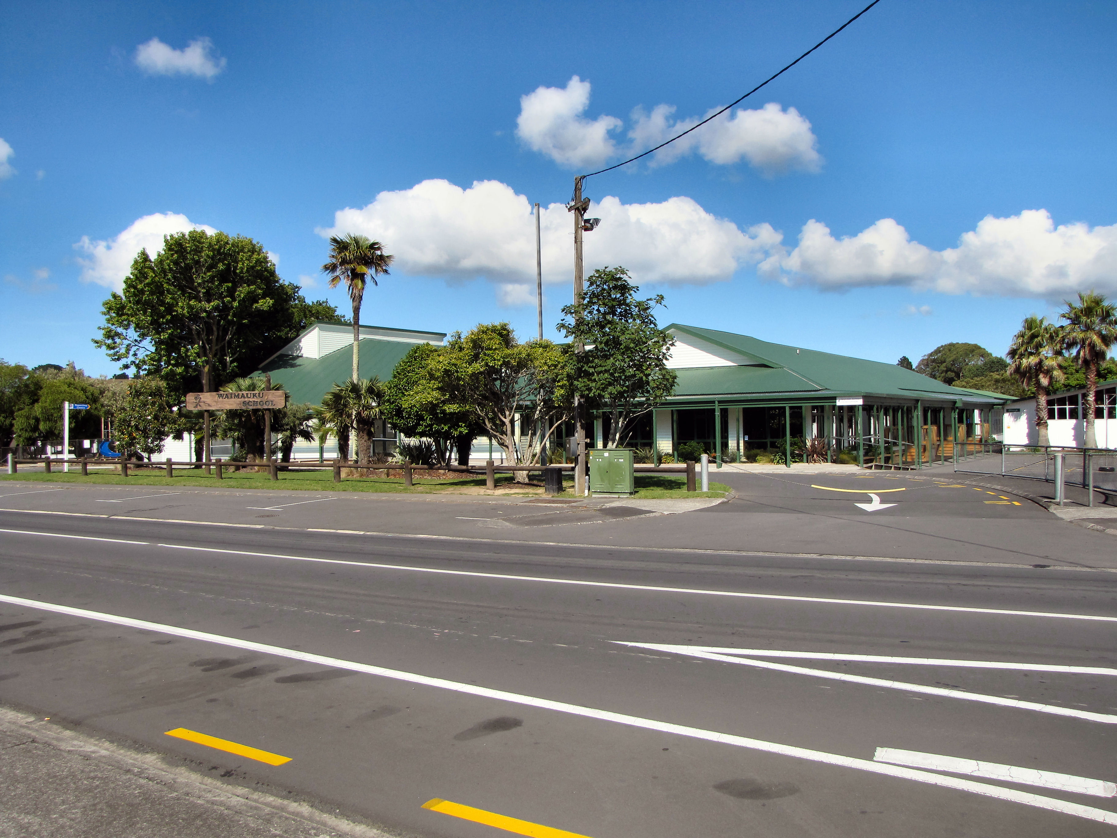 Waimauku School, a primary school in Waimauku, Rodney District, New Zealand